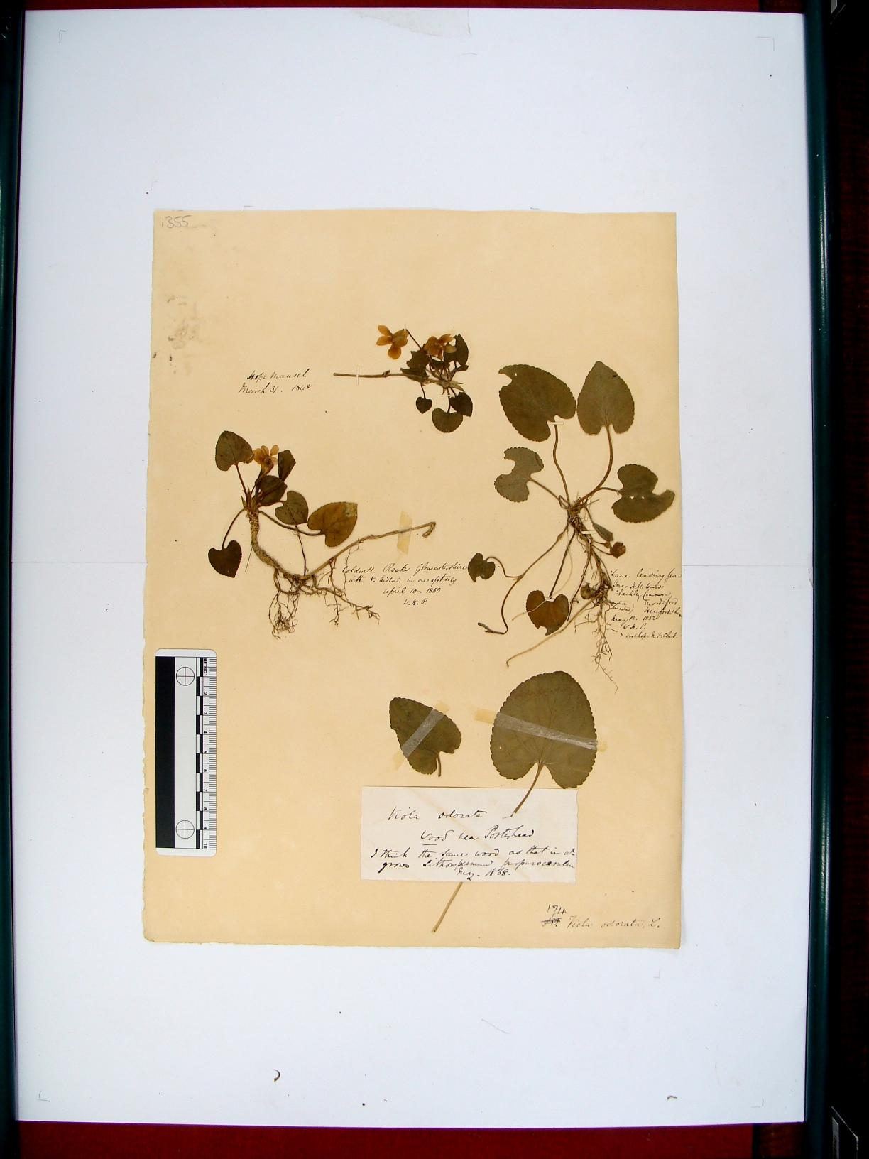 Viola odorata Coldwell Rocks, VC34 West Gloucestershire in 1850 by Rev. William Hunt Painter.